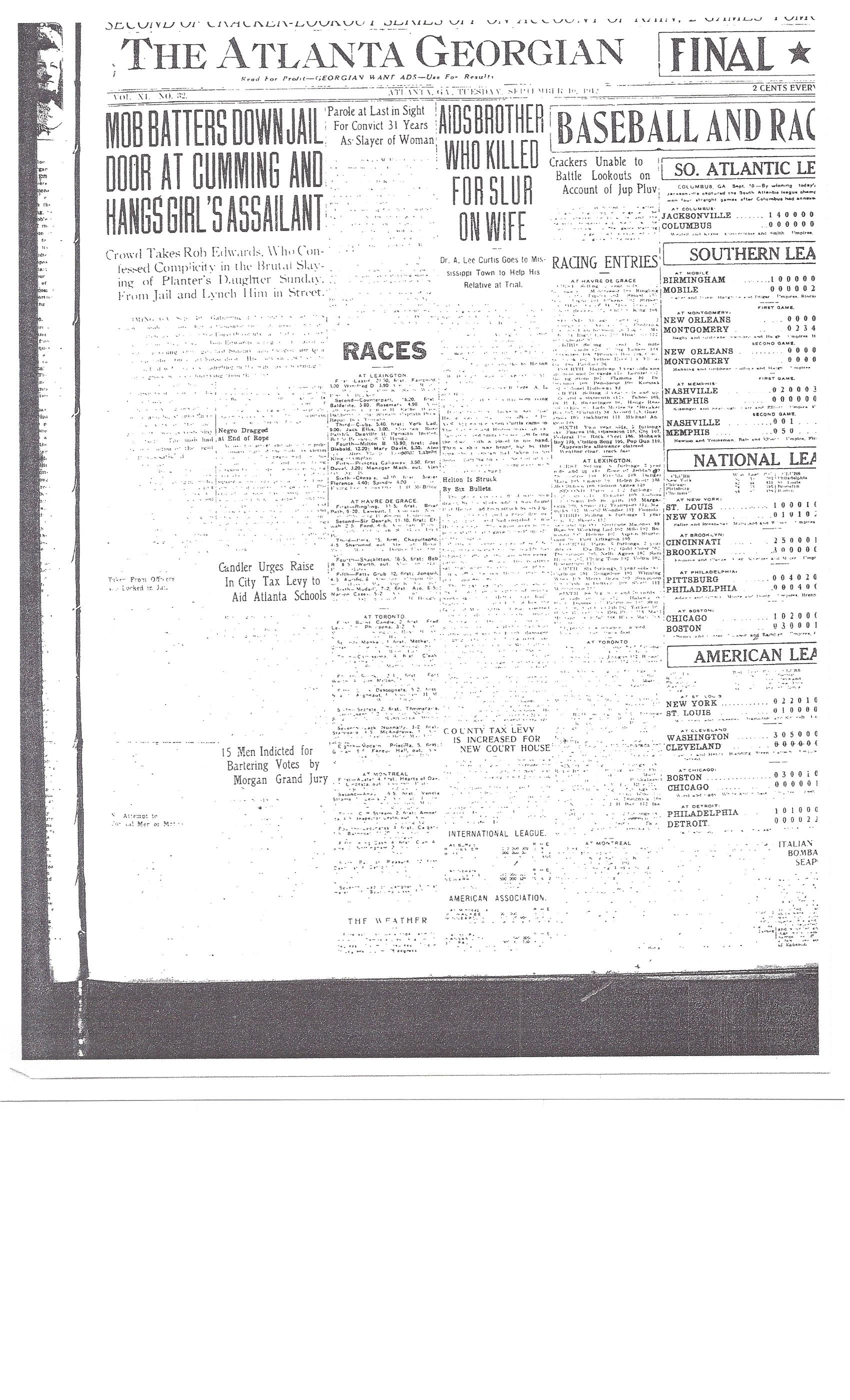 The Rob Edwards lynching made front page news in all the Atlanta papers. Many newspapers first reported Ed Collins was lynched because the body was so destroyed the crowd wasn’t sure who they had killed.